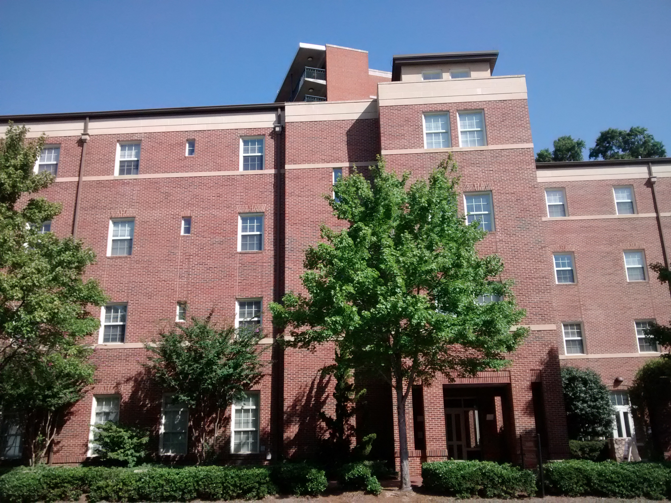 Hardin Residence Hall at the University of North Carolina at Chapel Hill.